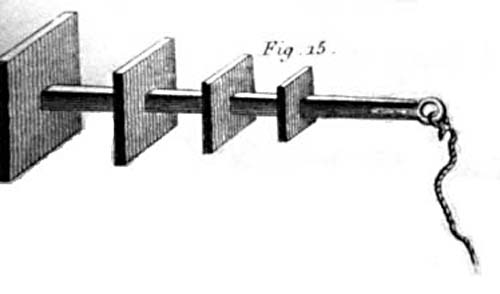 A simple sea-anchor or drogue. It is meant to slow forward motion of vessel when being driven before the wind.